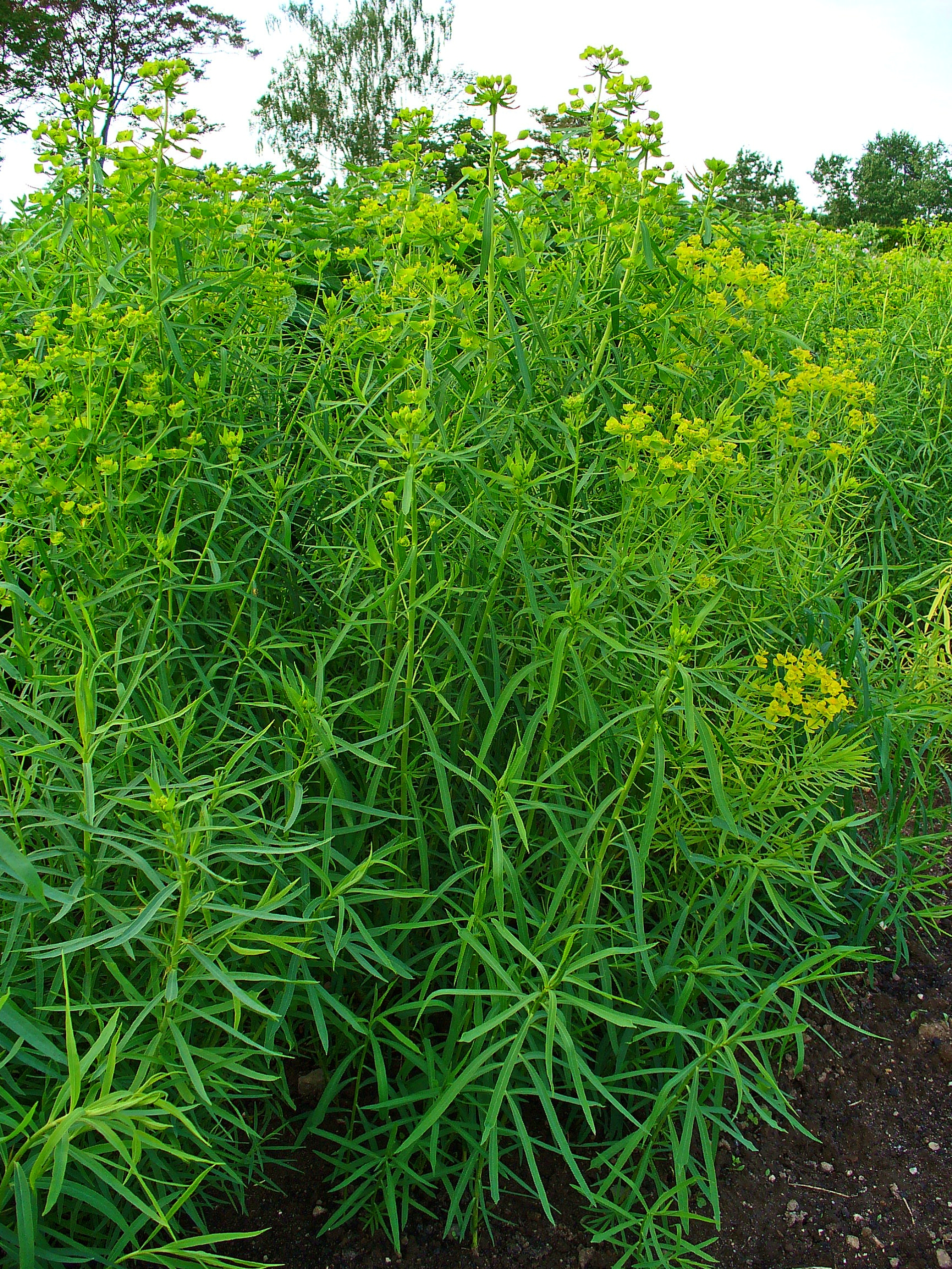 Euphorbia esula, Euphorbiaceae, Green Spurge, Leafy Spurge, habitus. The plant is used in homeopathy as remedy: Euphorbia esula (Euph-e.)